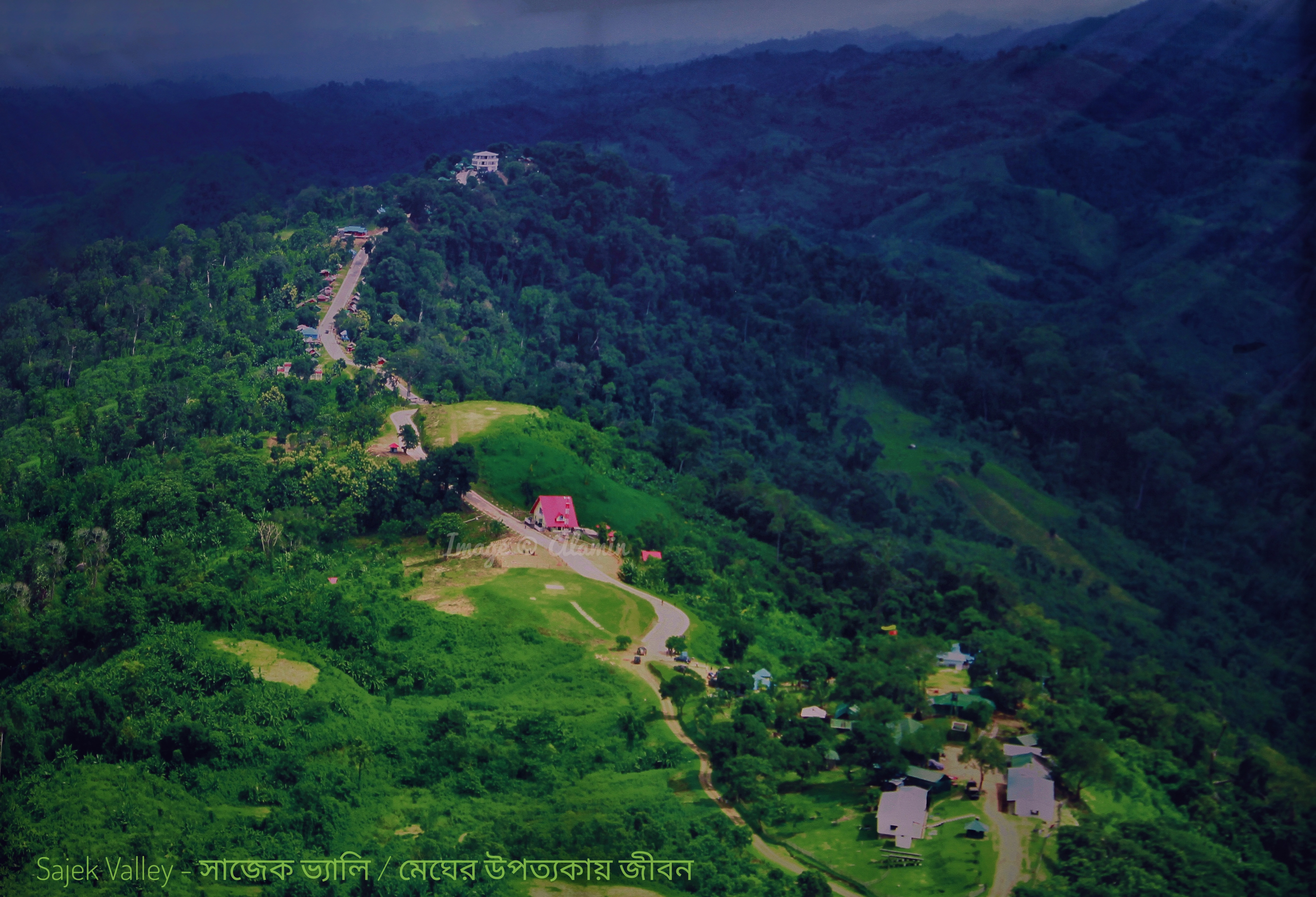 Sajek Valley is an emerging tourist spot in Bangladesh situated among the hills of Kasalong range of mountains in Sajek union, Baghaichhari Upazila in Rangamati District.